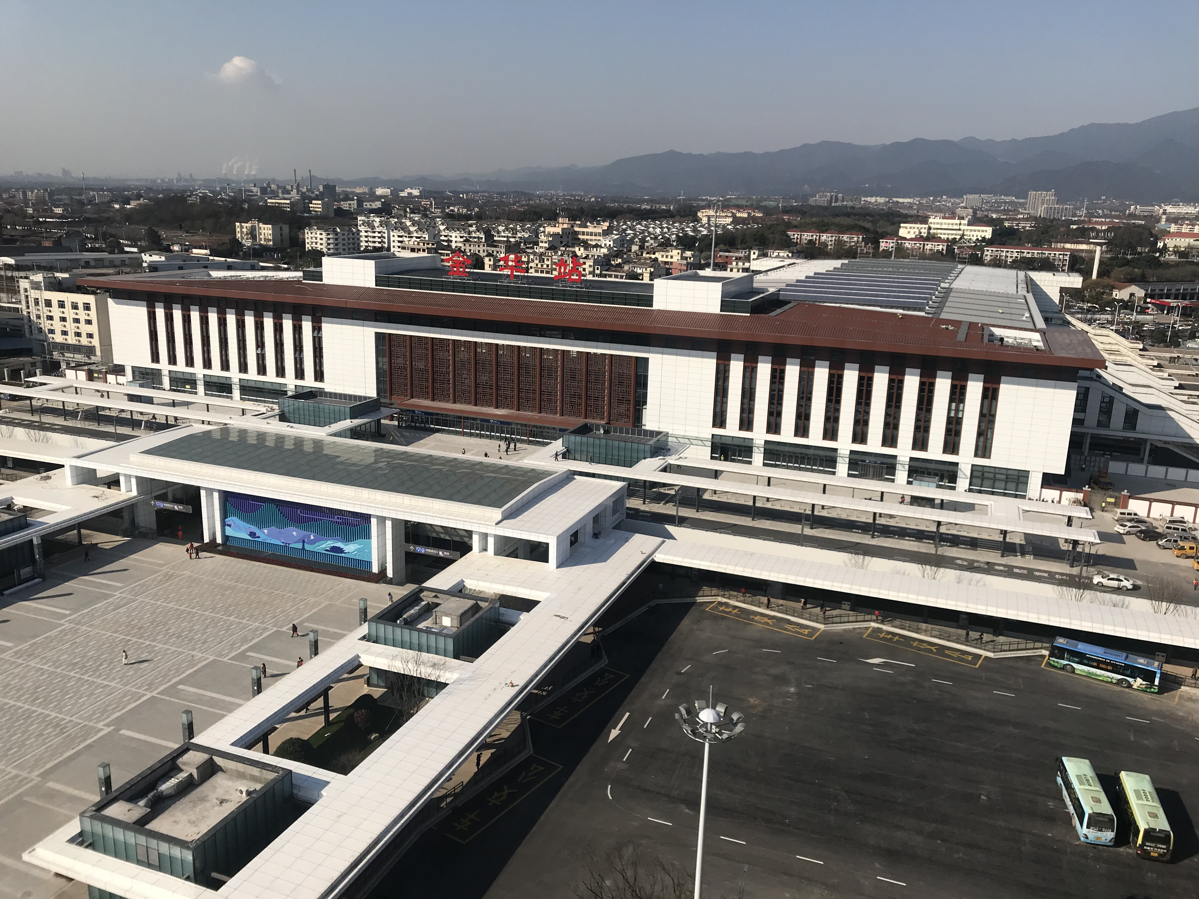 Two things surprised me: Jinhua Station South Entrance re-opened before the end of 2018; there is still a sunny day at the end of 2018.